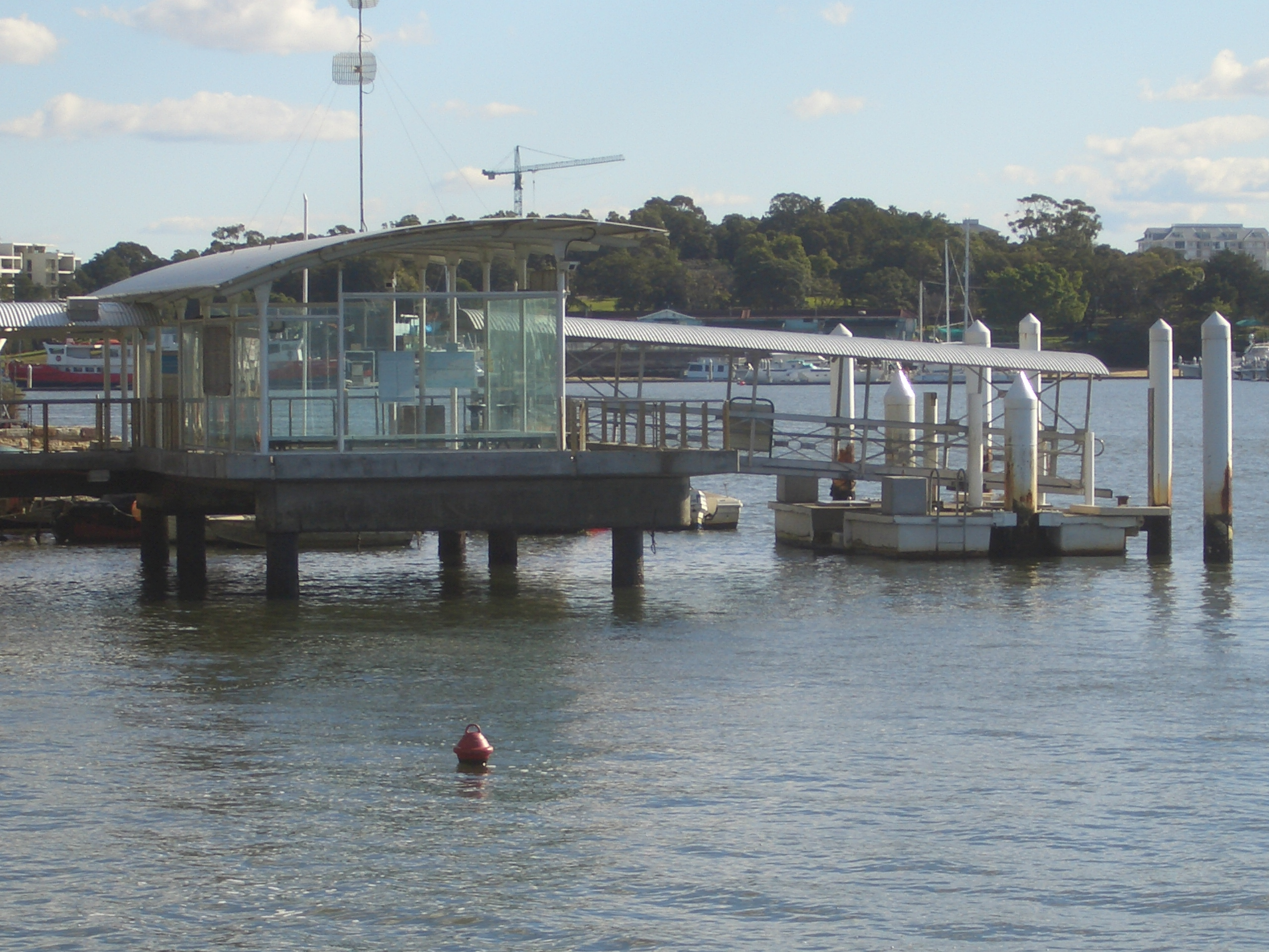 Abbotsford Ferry Wharf, Sydney